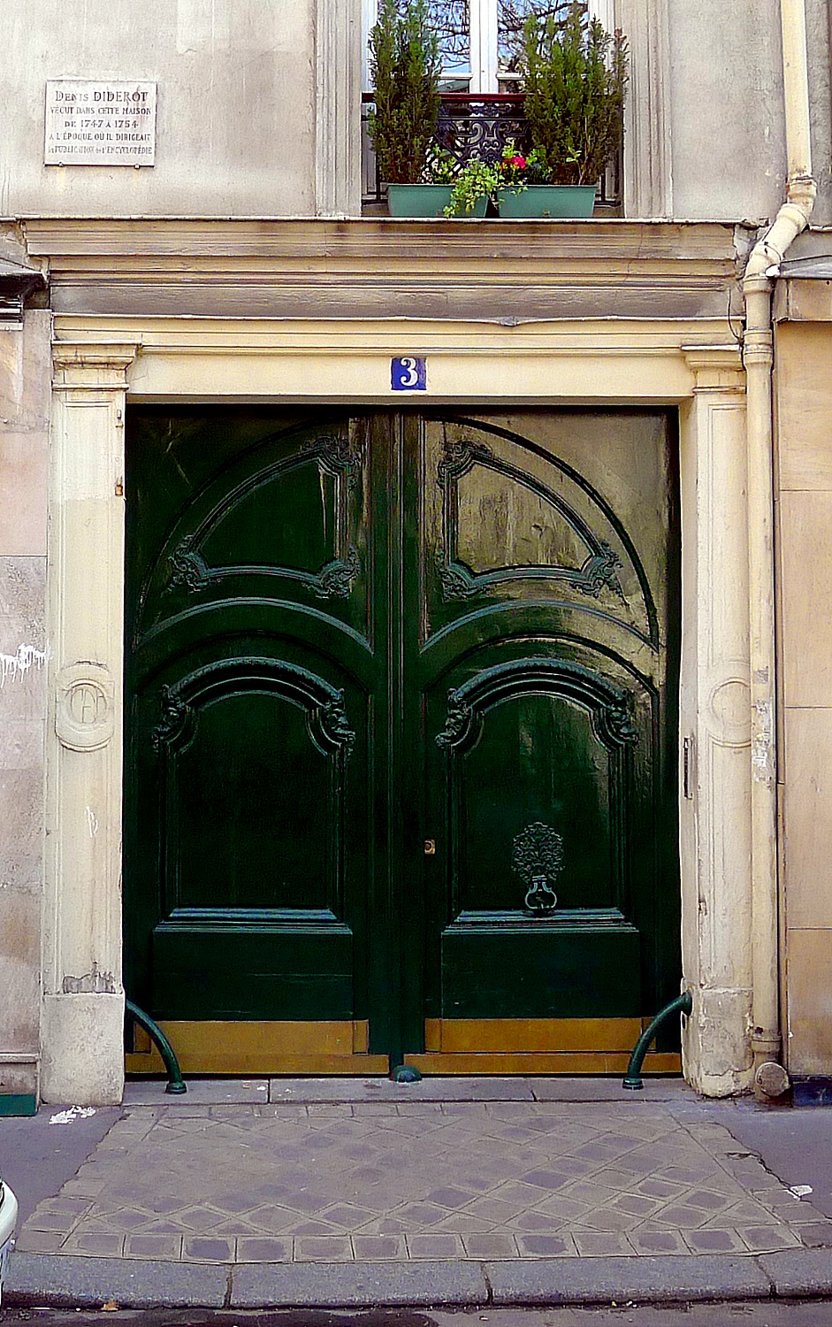 Estrapade street - Paris